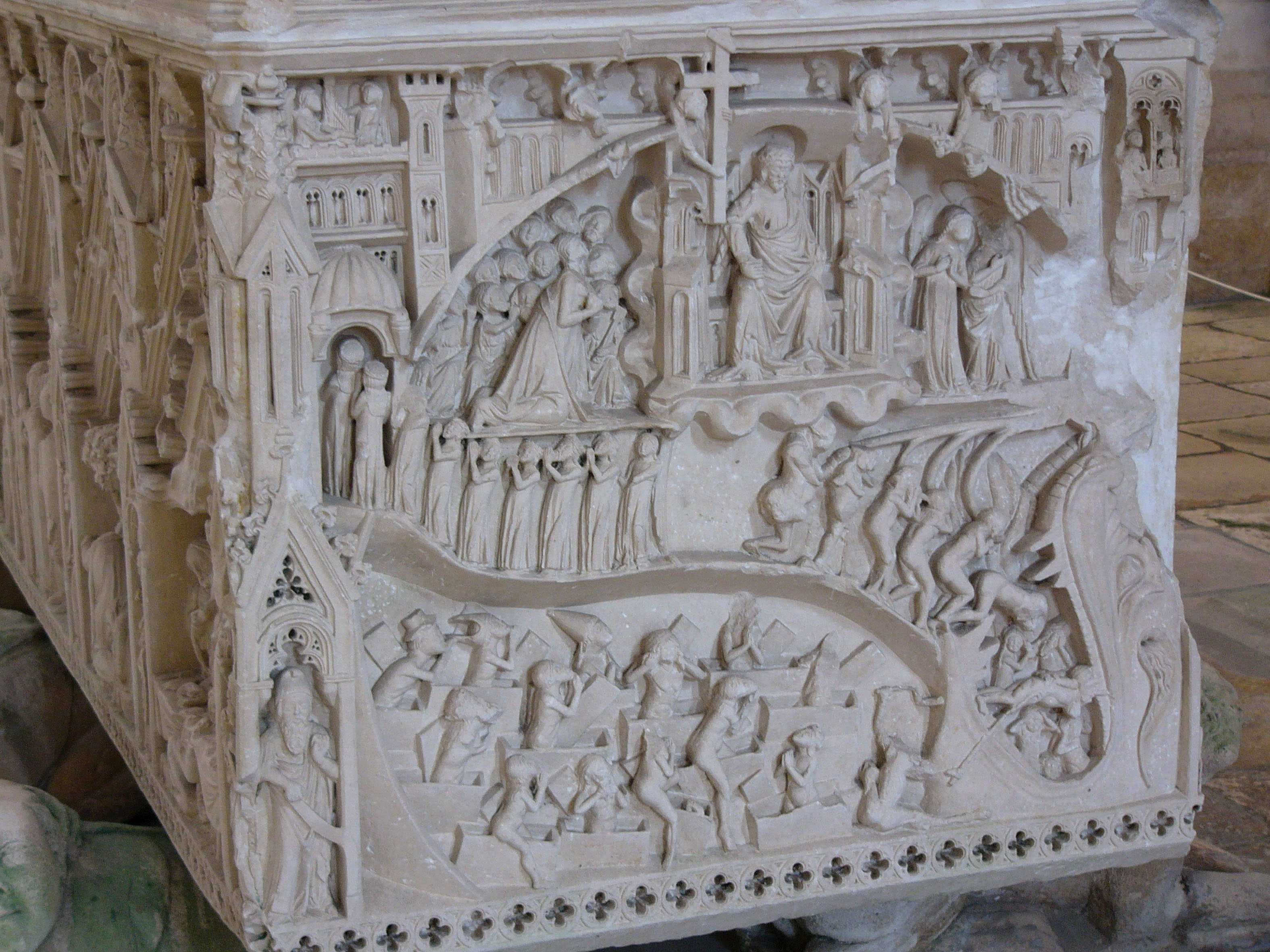 Tomb of Ines de Castro in the Alcobaça Monastery, Portugal